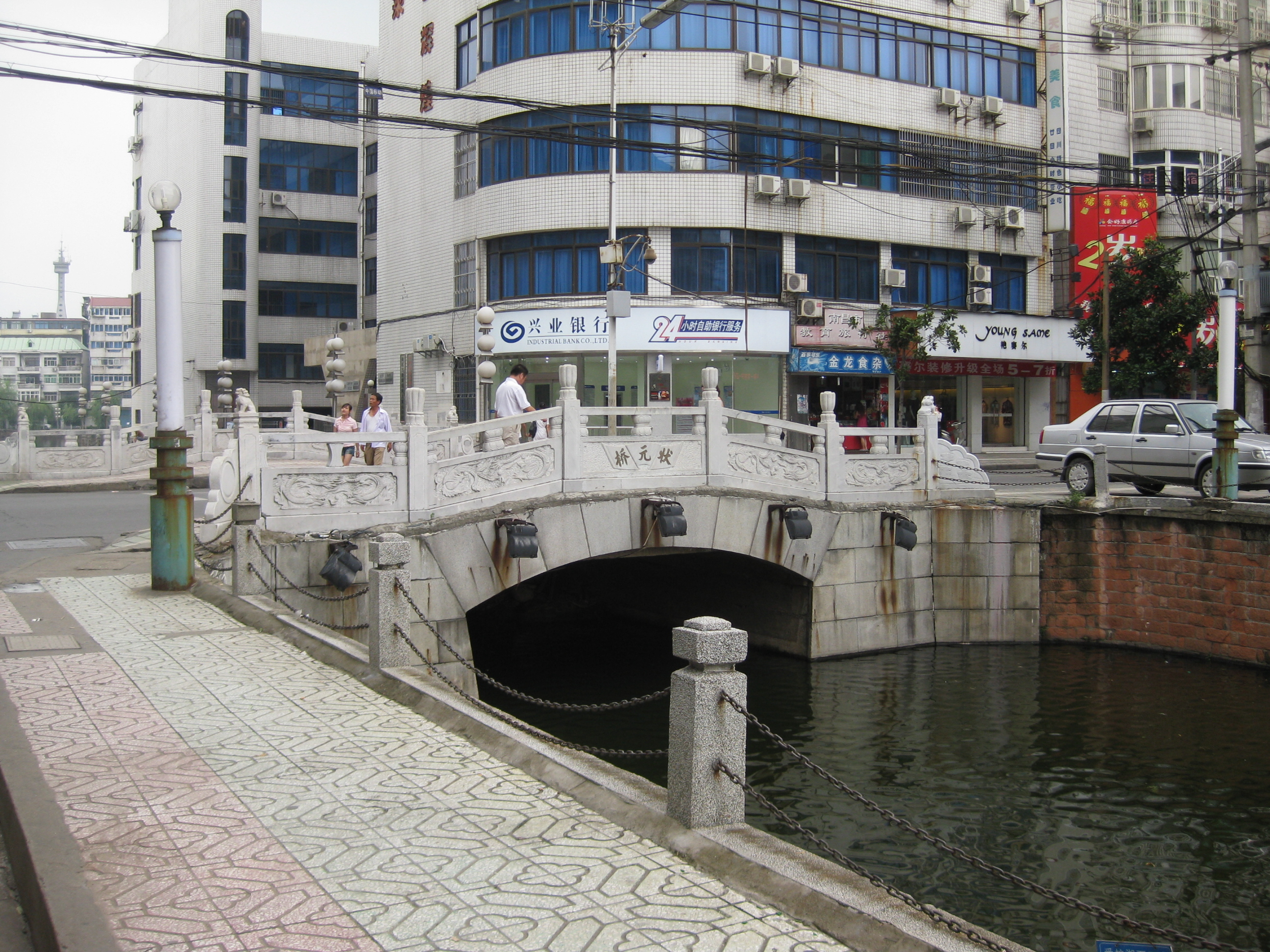 The Zhuangyuan Bridge of Nanchang, Jiangxi, China.